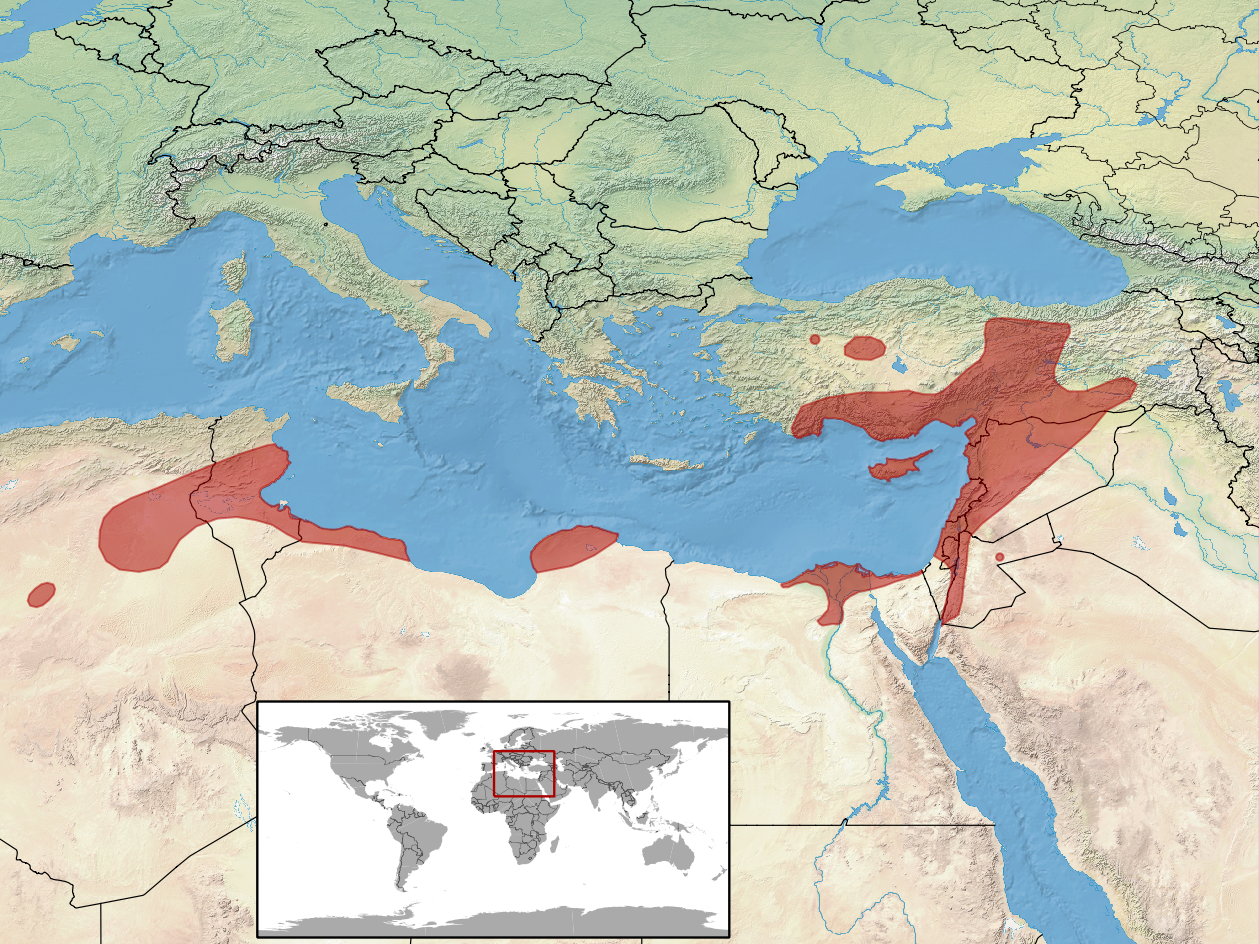 geographic distribution of Trachylepis vittata